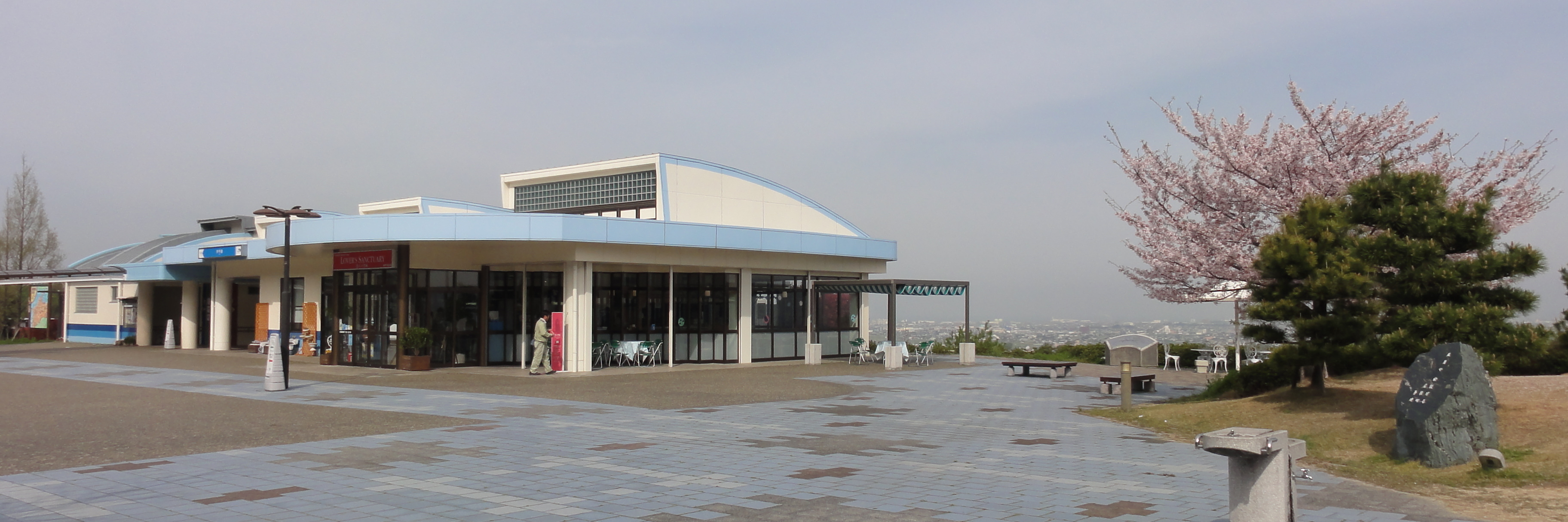 Iyonada Service Area ,Ehime prefecture, Japan